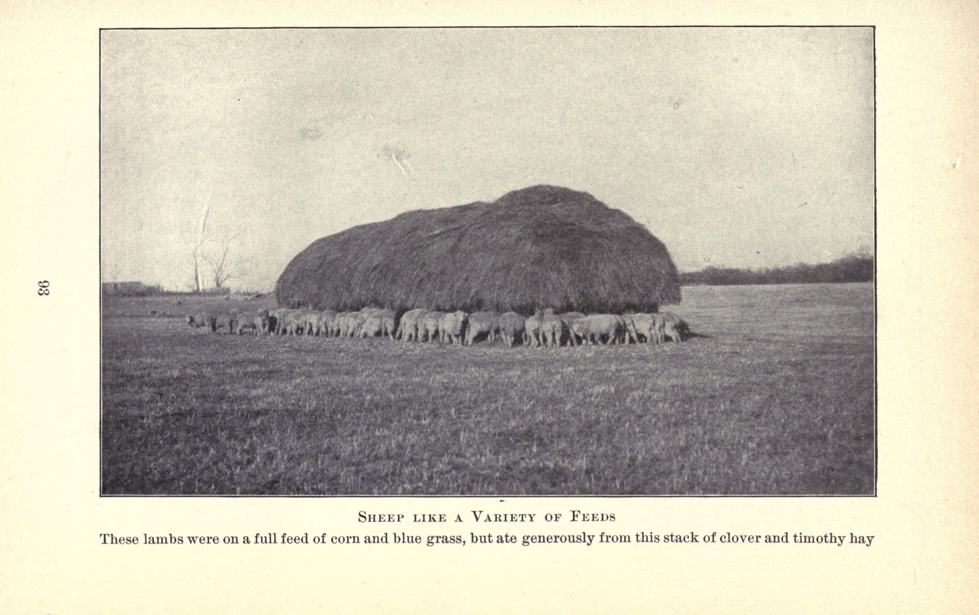 Sheep feeding and farm management, by D. Howard Doane ...